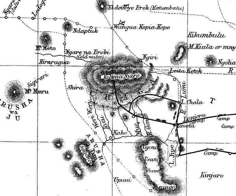 Map of Kilimanjaro by Charles New (1840-75)